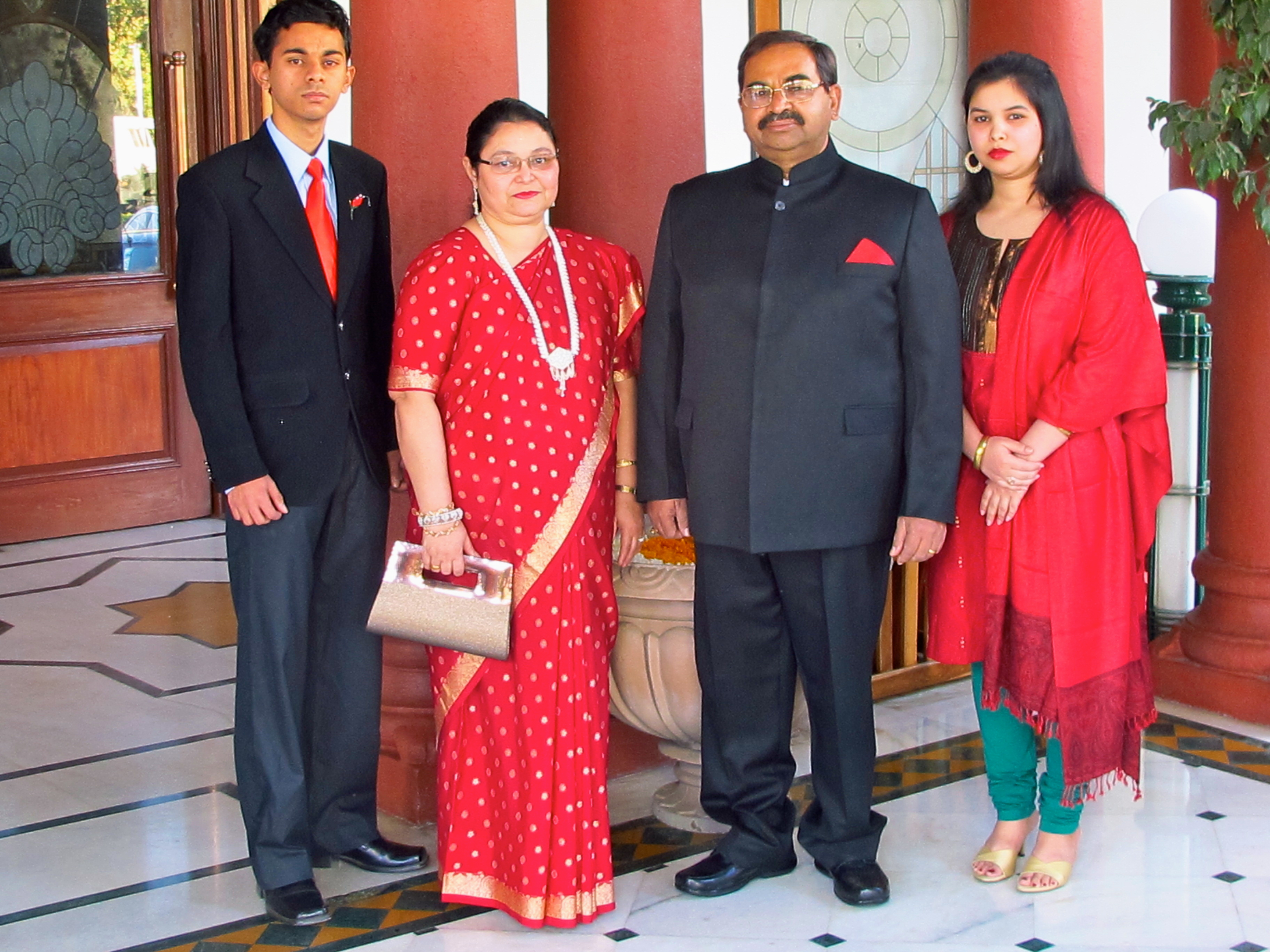 Taken in Bhopal in 2013